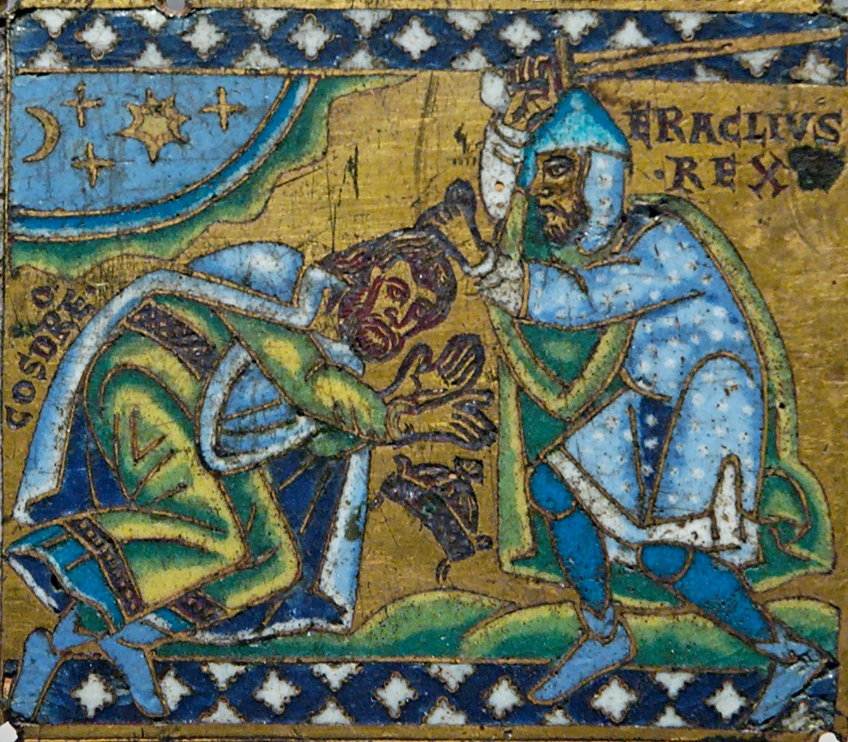 Cherub and Byzantine Emperor Heraclius submitting Sassanid king Khosrau II; plaque from a cross. Champlevé enamel over gilt copper, 1160-1170, Meuse Valley.